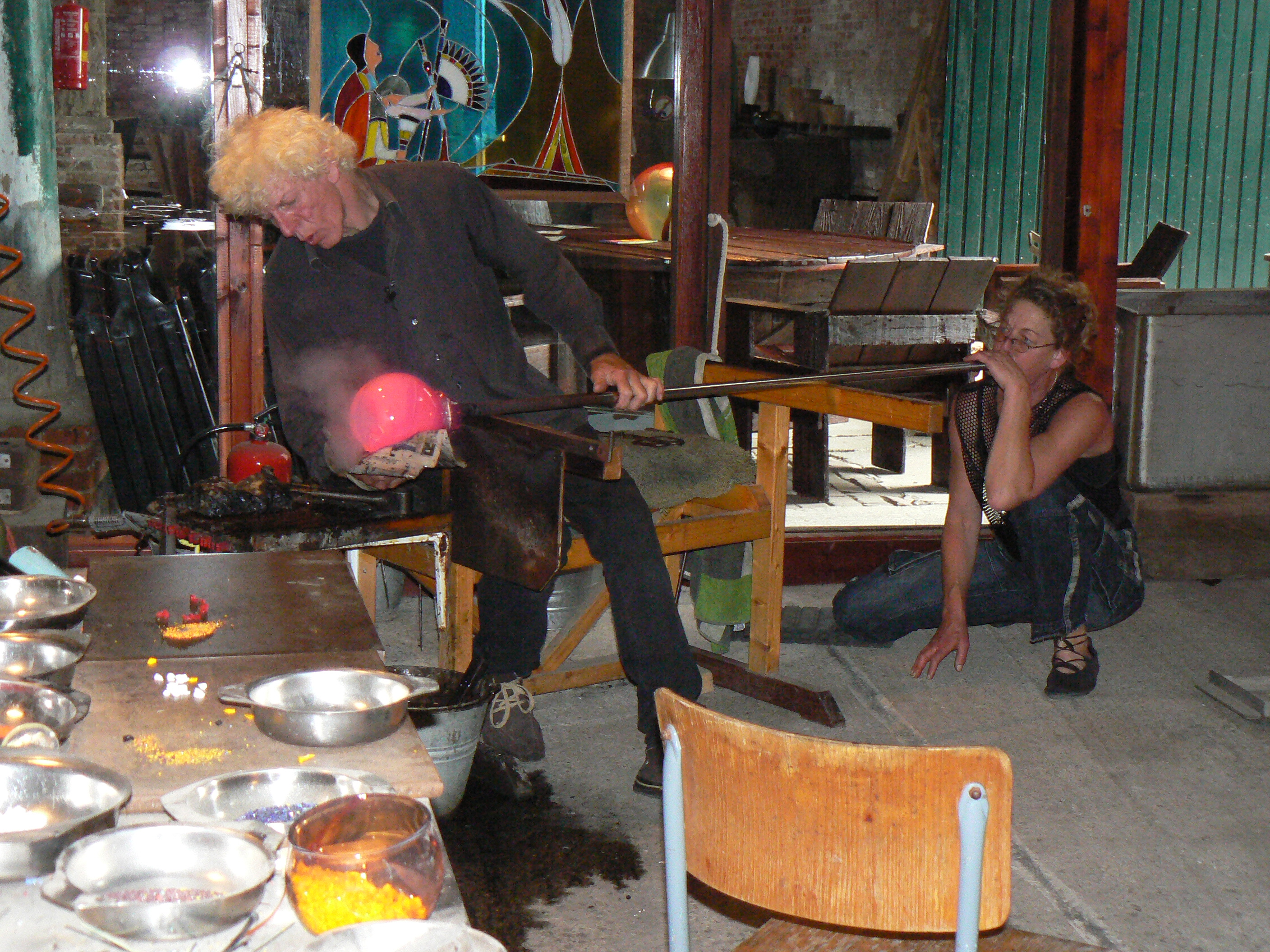 Glass artist Johan de Vries, Oldambt/The Netherlands